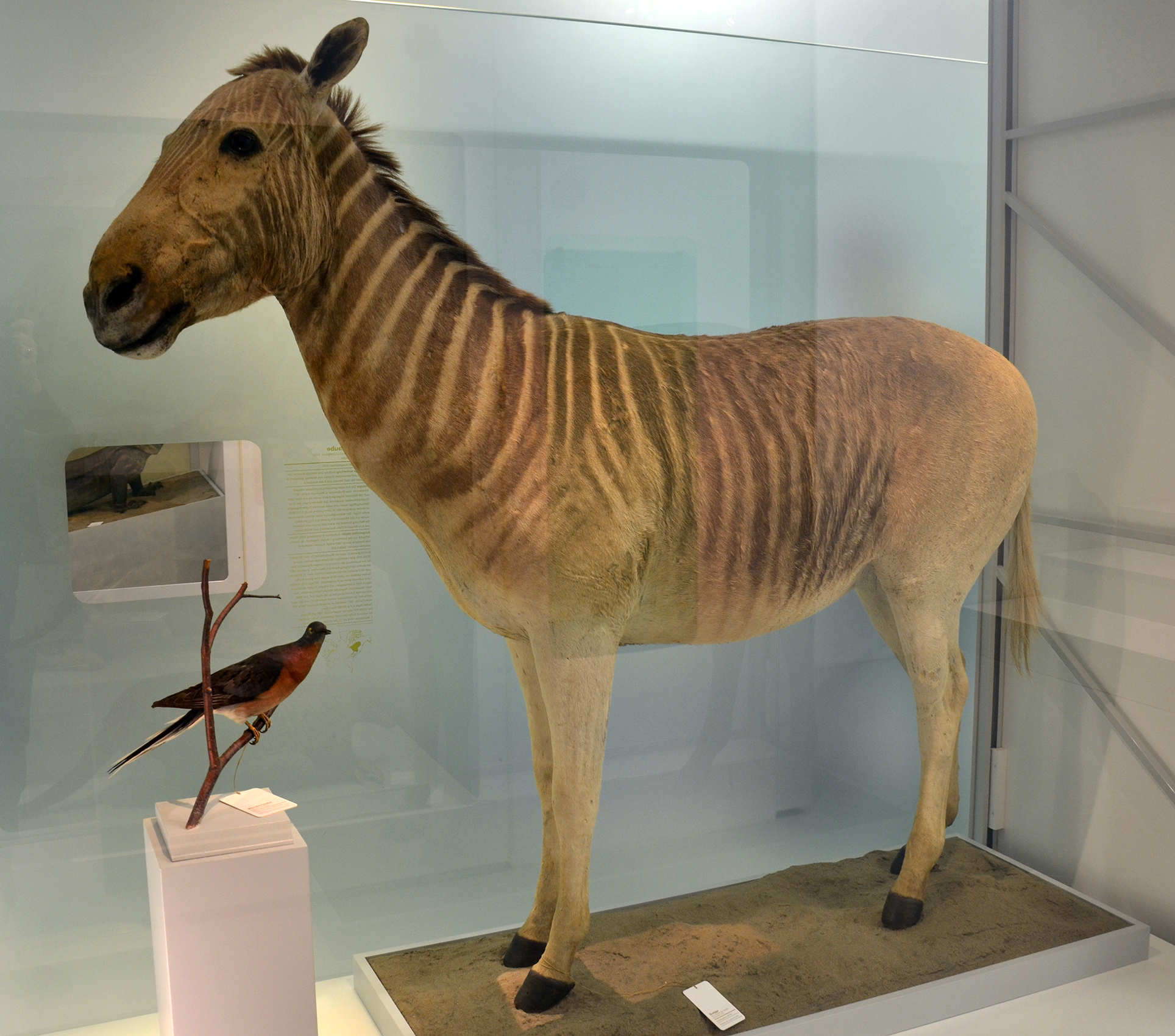 Taxidermied Equus quagga quagga of the Naturhistorisches Museum of Basel.